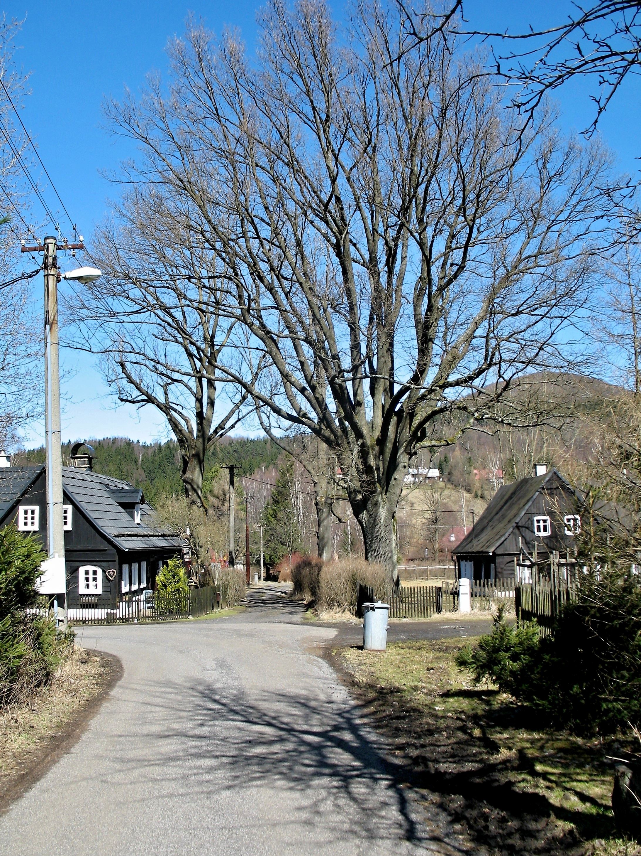 Quercus robur in Kytlice, Czech Republic